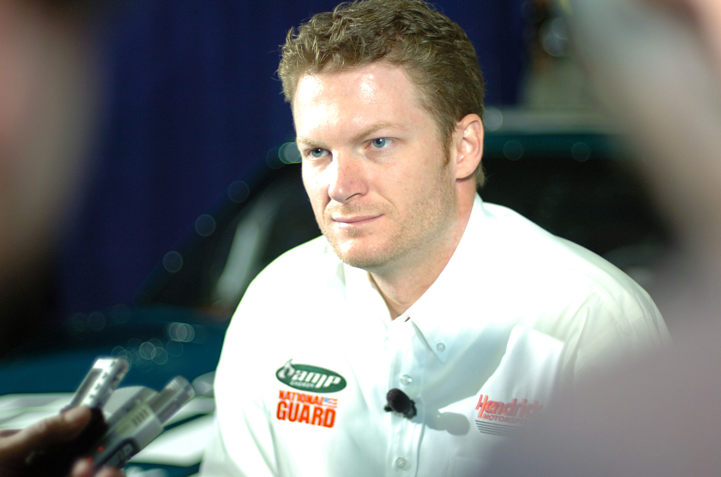 NASCAR auto racer Dale Earnhardt Jr. speaks with members of the press Jan. 23 at Hendrick Motorsports headquarters outside Charlotte, N.C. Earnhardt will drive the National Guard's co-sponsored No. 88 Sprint Cup car and will join Landon Cassill to co-drive the Guard's primary-sponsored No. 05 Nationwide Series car. NASCAR's auto racing season starts in mid-February at Daytona International Speedway, Florida.